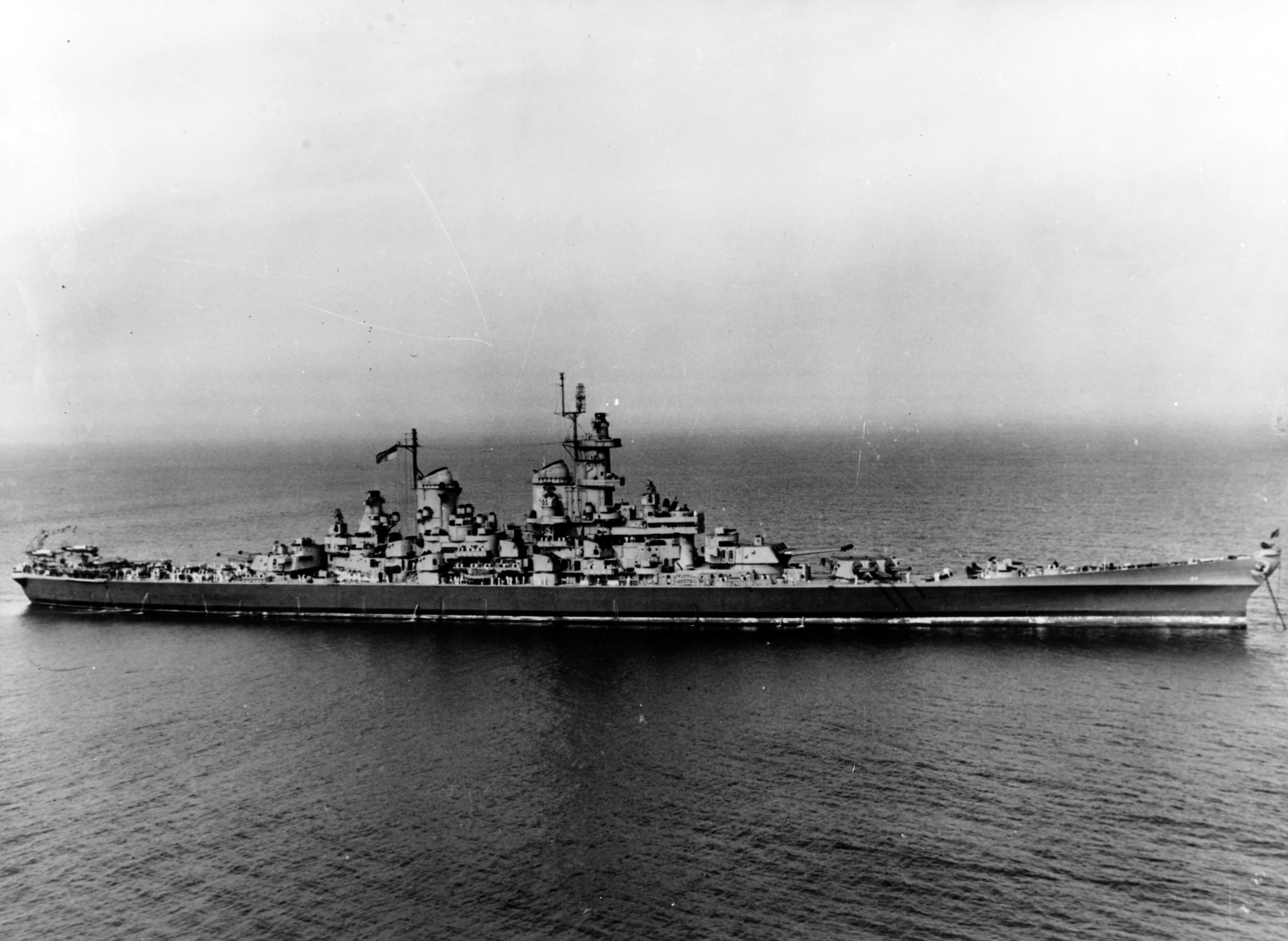 The U.S. Navy battleship USS Wisconsin (BB-64) at anchor on 30 May 1944, during her Atlantic coast shakedown period.